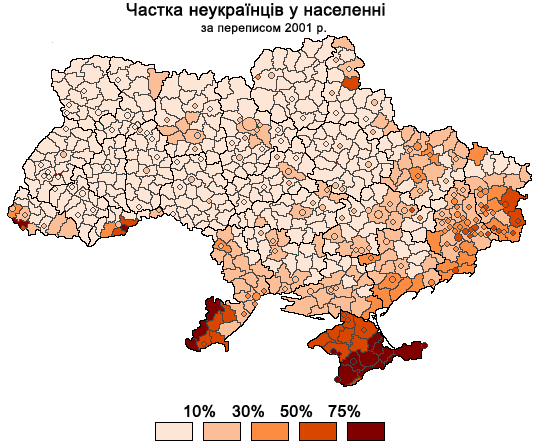 Share of ethnic non-ukrainians among the population of Ukraine, 2001 census